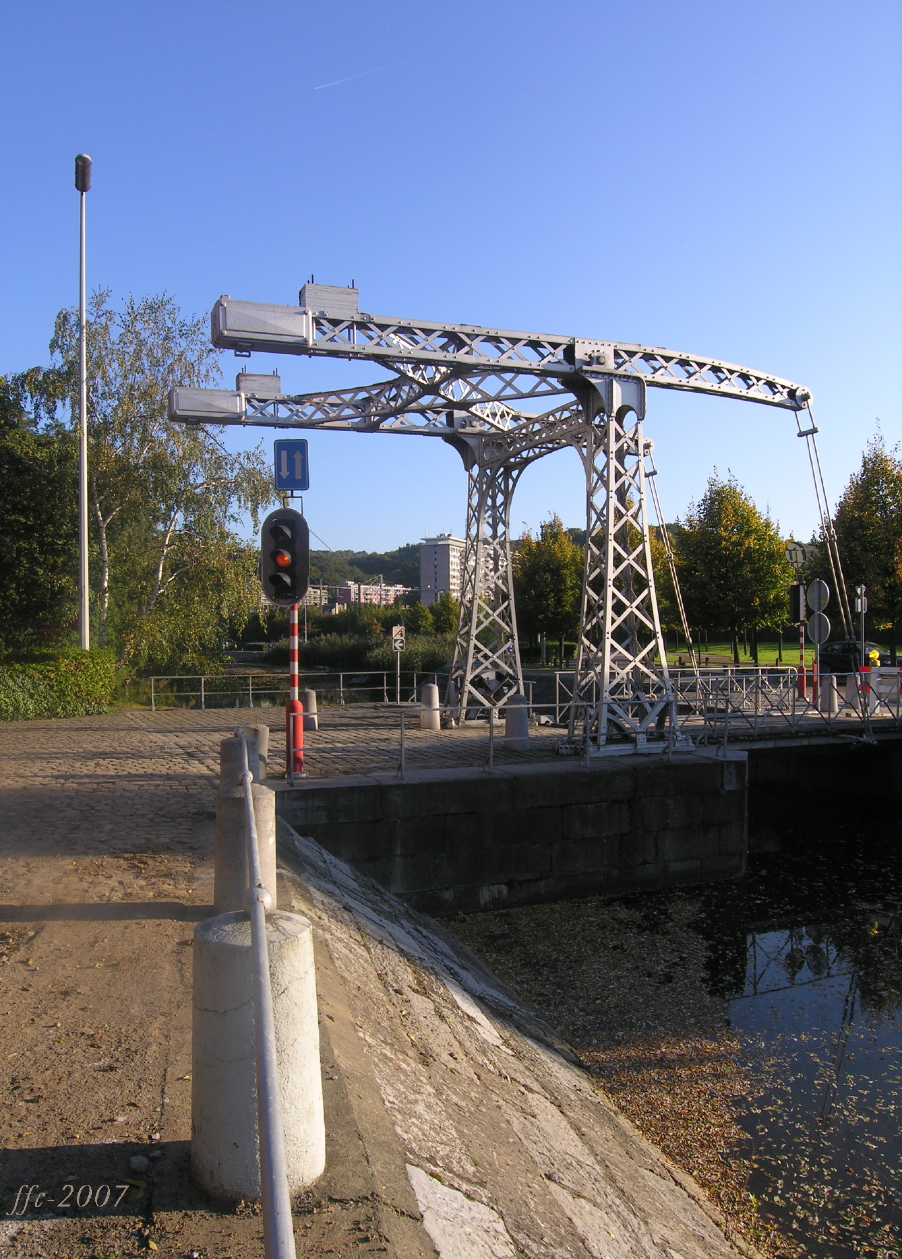 Liège (Chênée), Belgium: Bridge over the Ourthe Canal